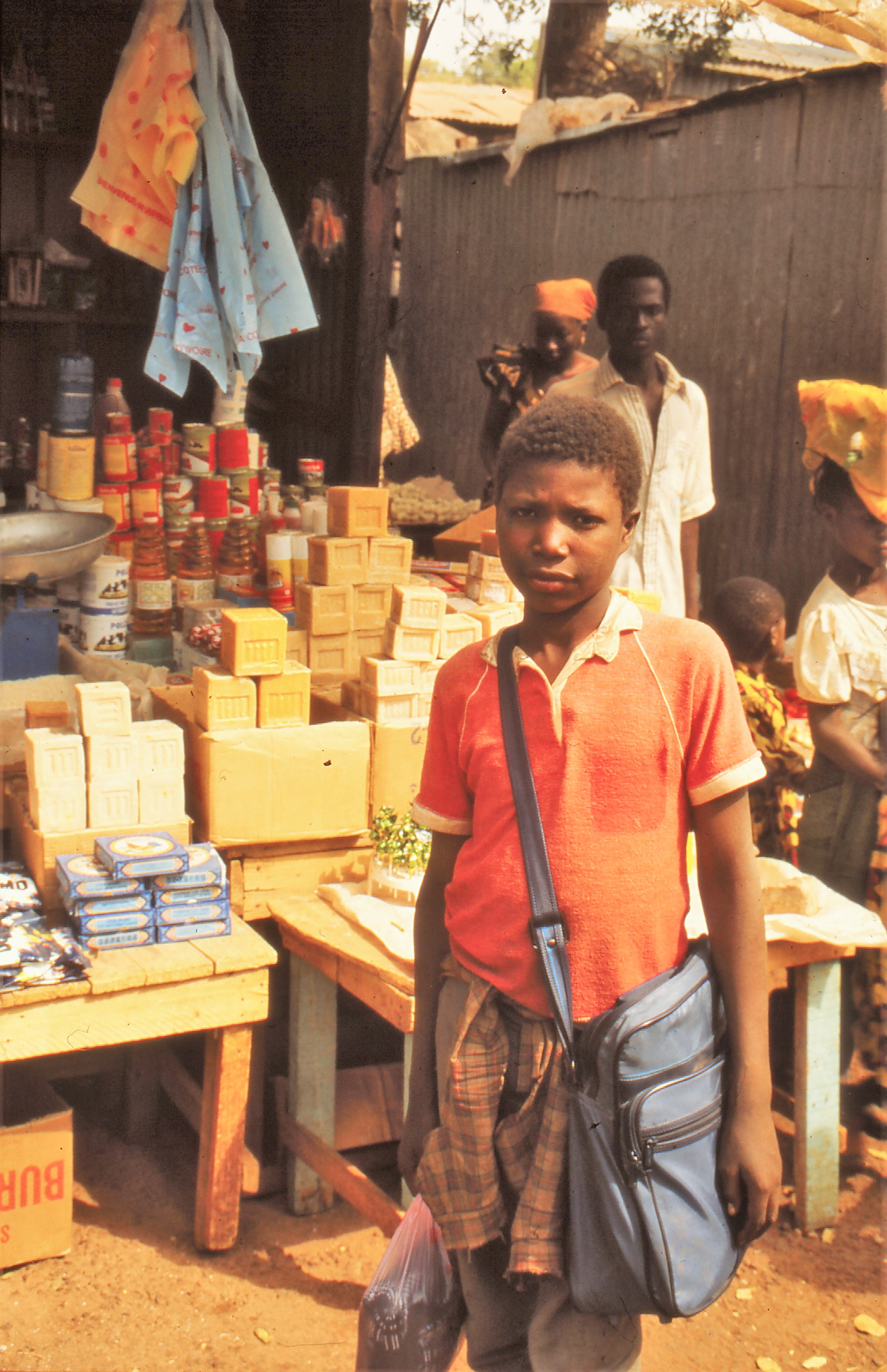 A soap stall at Mopti market, Mali 1996